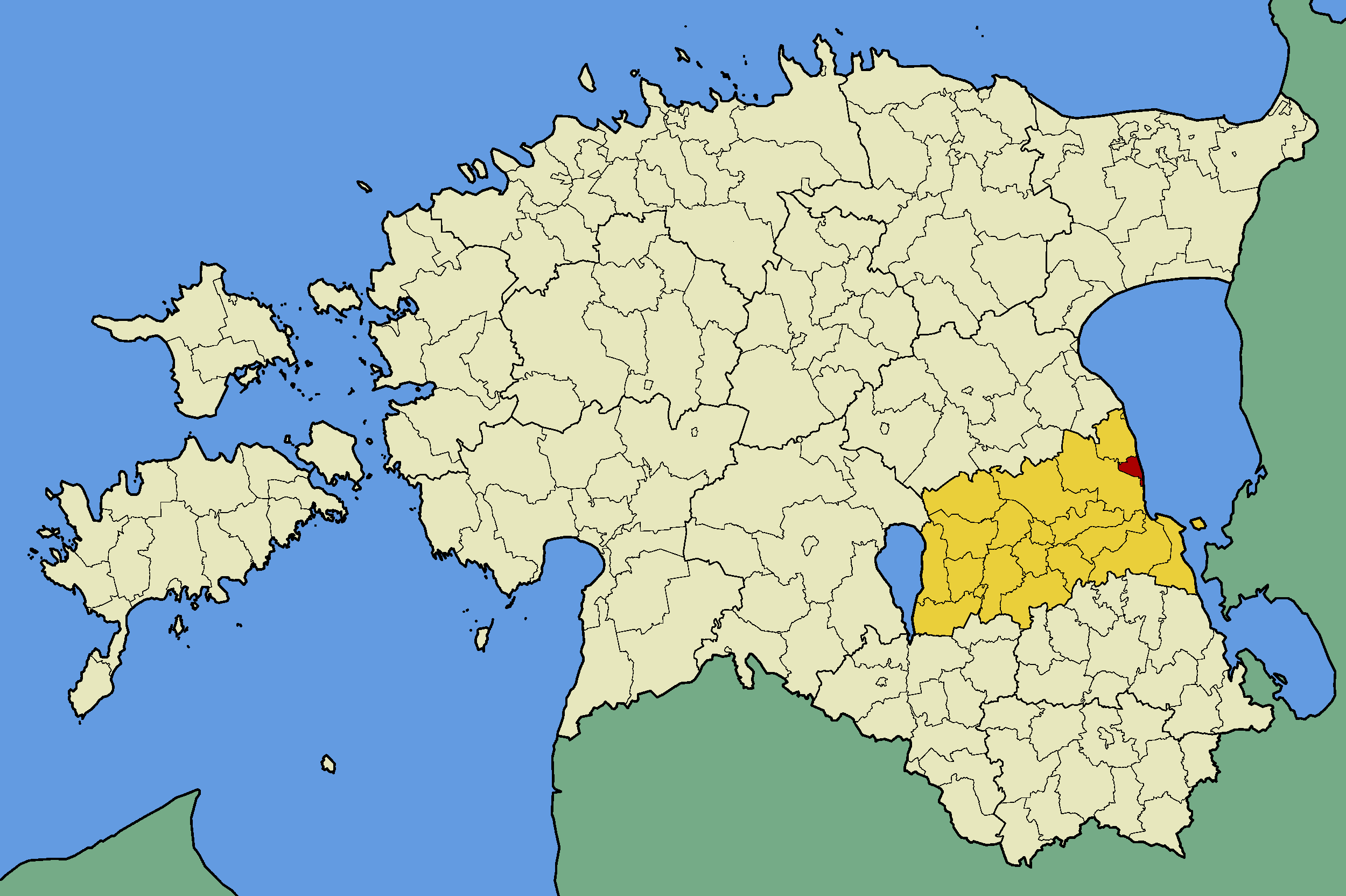 Map of Estonia with borders of municipalities (parishes). Tartu county and Peipsiääre municipality emphasized.